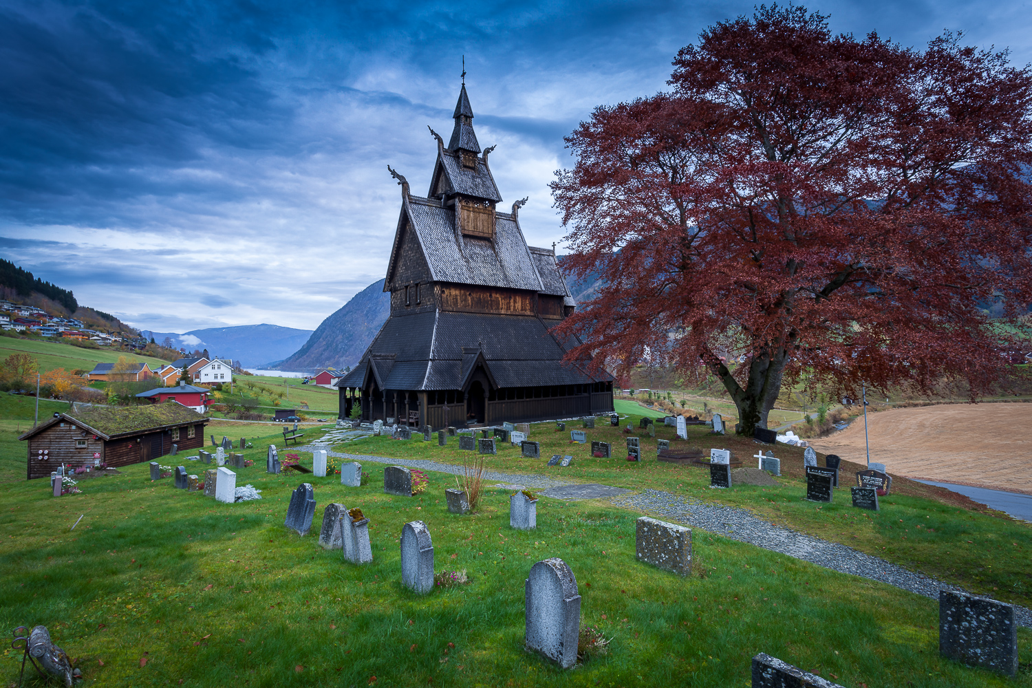 Hopperstad Stavkirke Vik Sogn